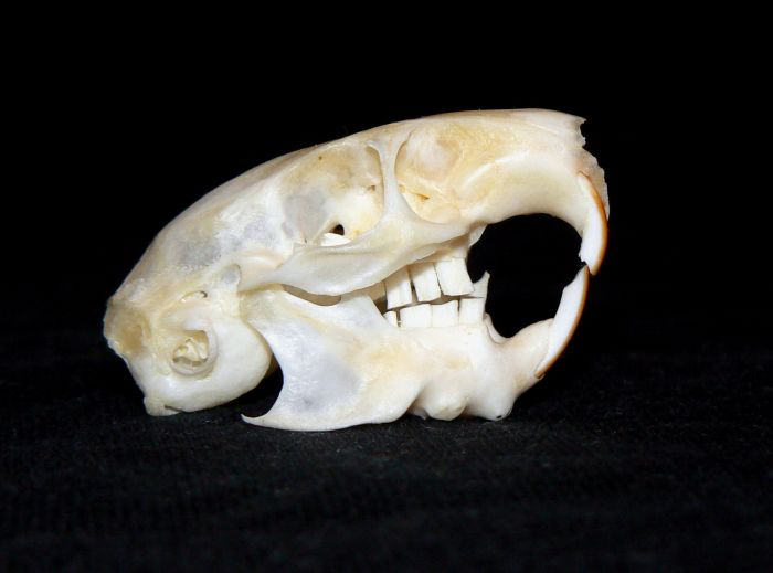 The skull of Octodon degus